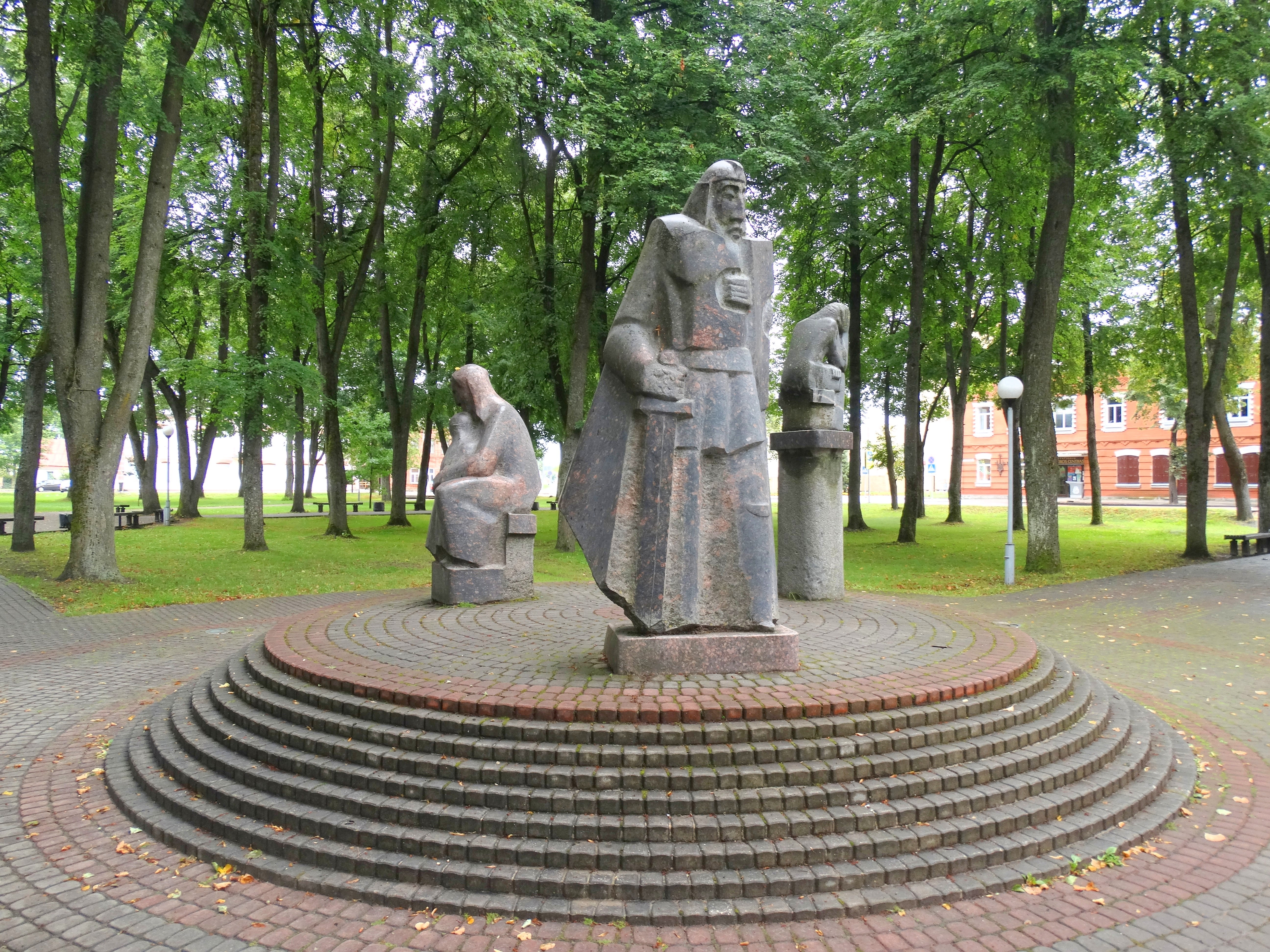 Park, Švenčionys, Lithuania